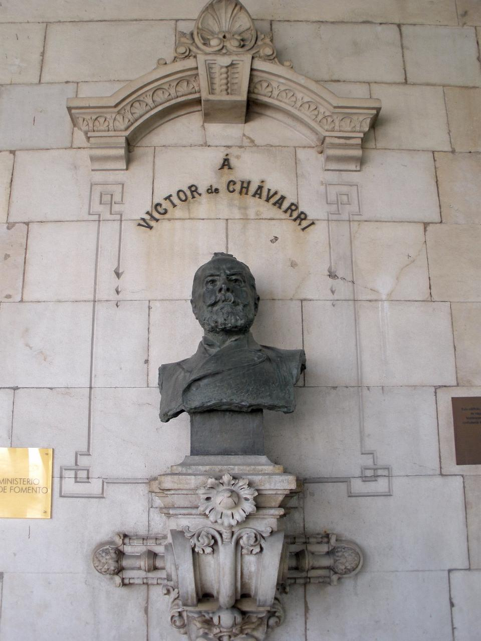 Monumento a Víctor de Chávarri, en la estación de FEVE de Bilbao-Concordia (Bilbao, País Vasco, España)